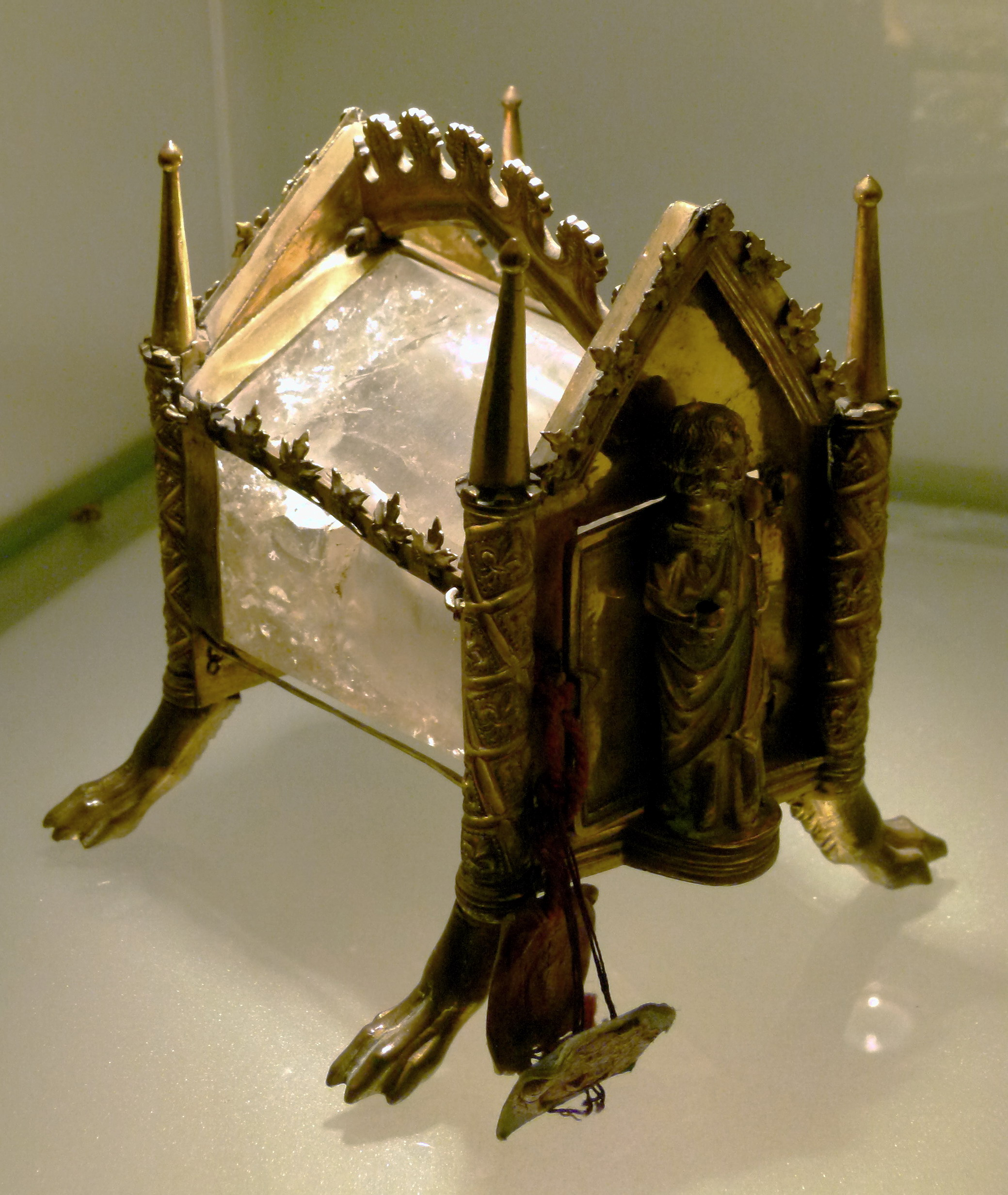 Treasury of the Basilica of Our Lady, Maastricht, the Netherlands. Reliquary, gilded silver and copper with crystal, Meuse-Rhine region or France, early 13th c.